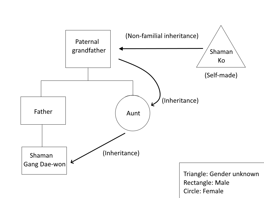 Inheritance of the second mengdu (out of three) of shaman Gang Dae-won.